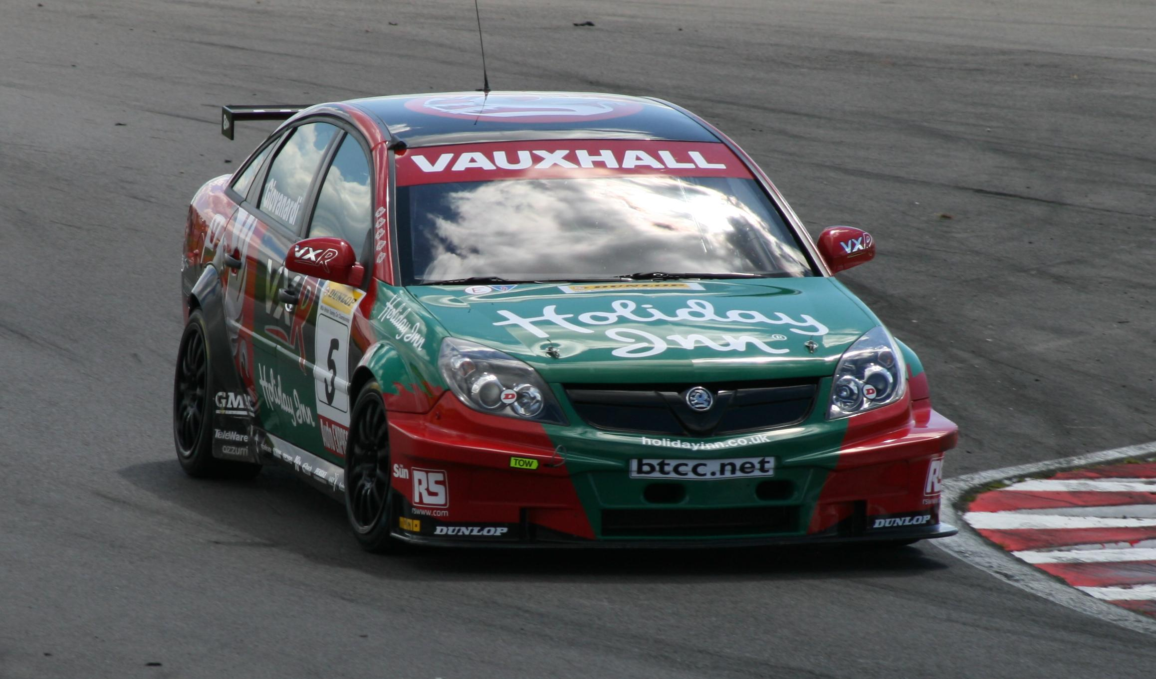 Fabrizio Giovanardi driving a Vauxhall at the Snetterton round of the 2007 BTCC season.